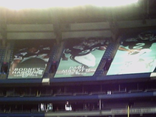 Photo I took 12 July 2007 of Paul Masotti banner which hangs in the Rogers Centre during Toronto Argonauts games.